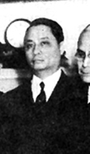 Cropped photo of President Manuel A. Roxas